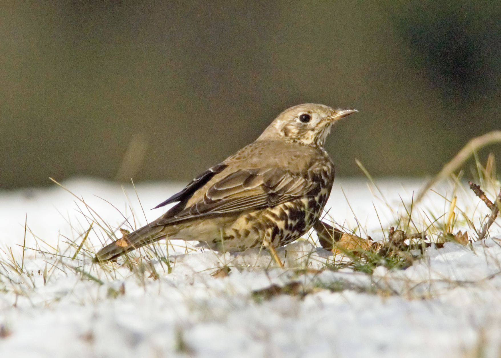 Mistle Thrush